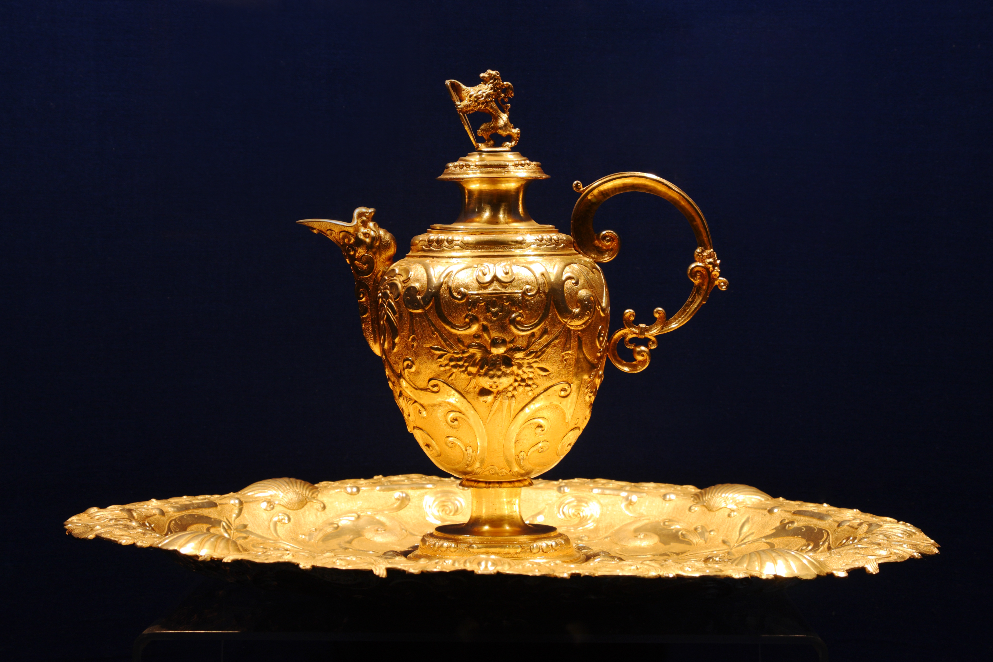 Baptismal ewer and basin in museum in Toruń (Poland).